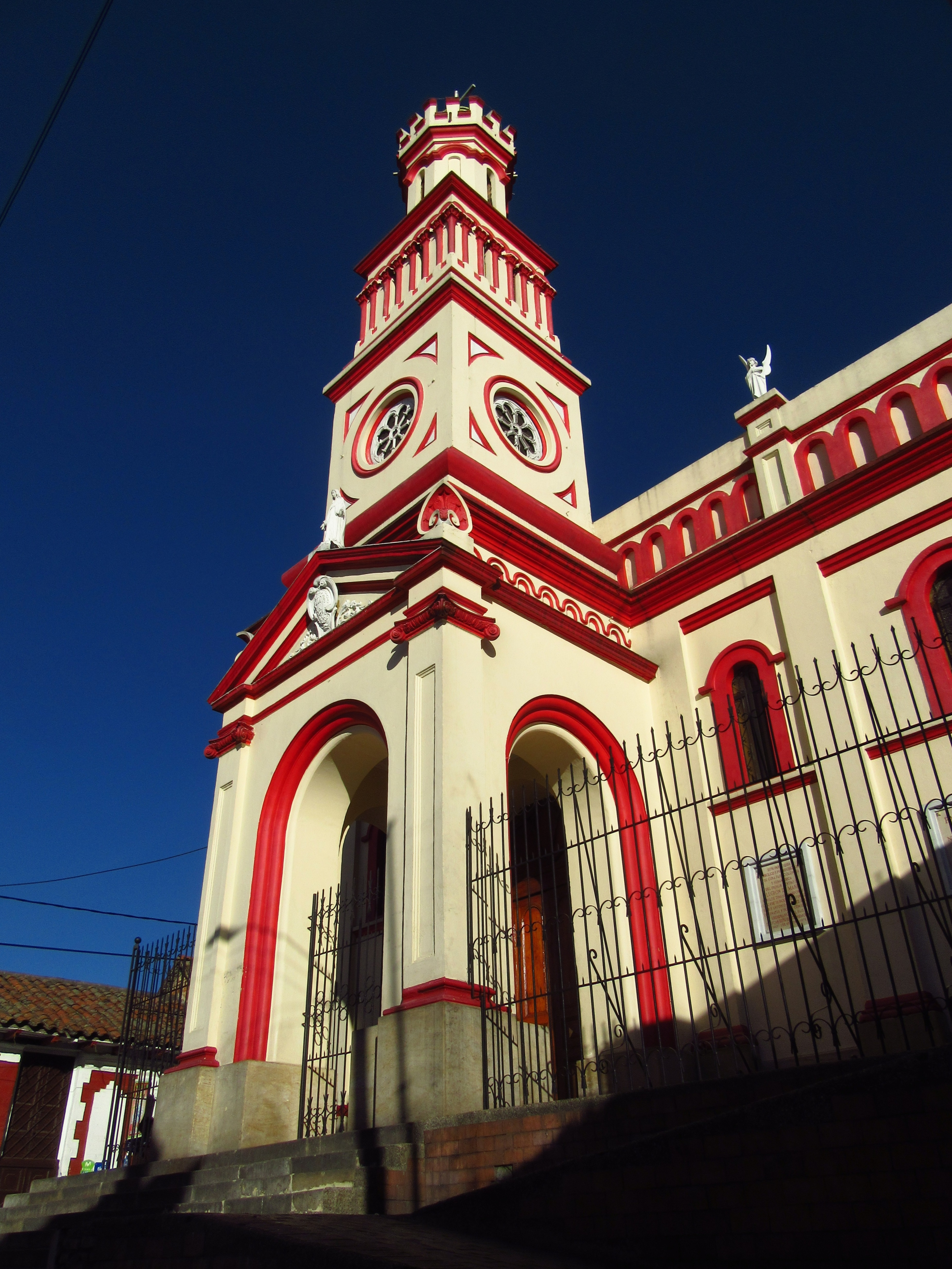 Bogotá